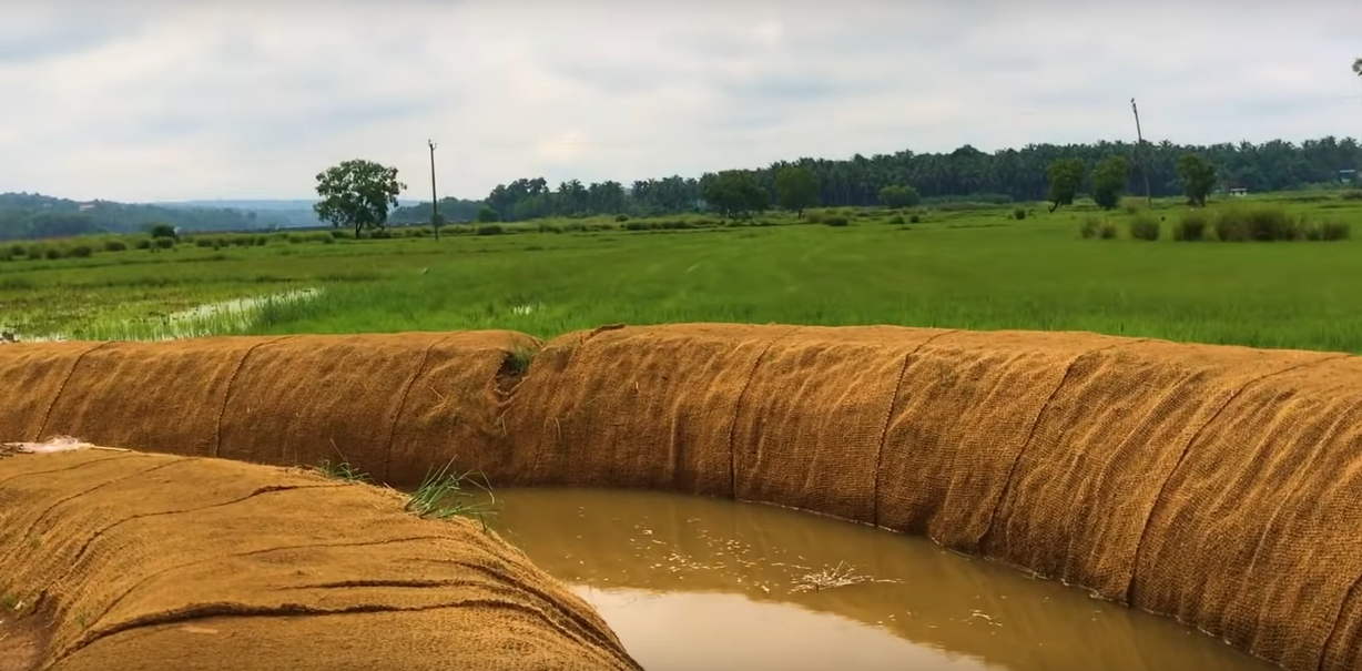 A field